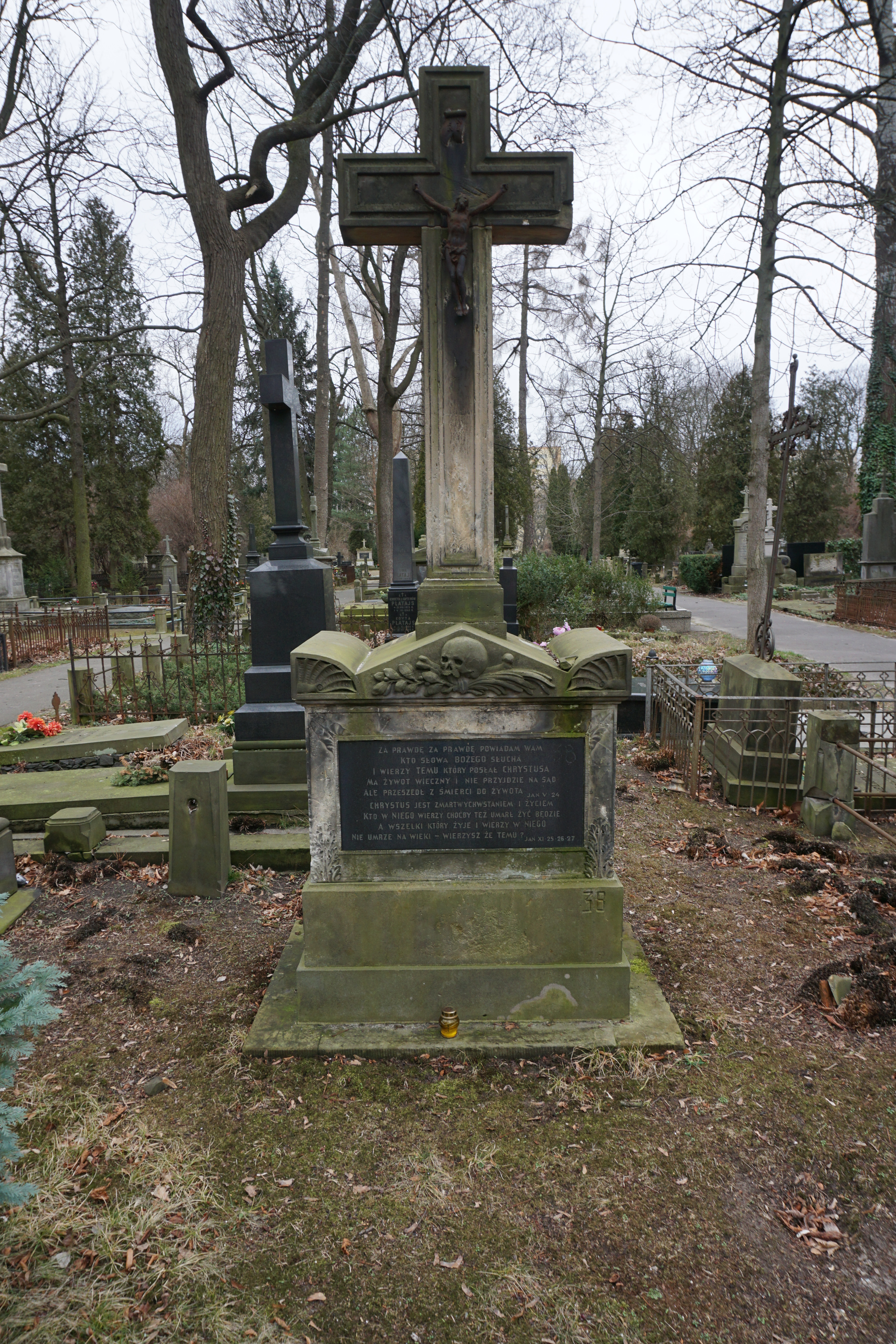 The grave of Piotr Tepper at the Evangelical-Augsburg cemetery in Warsaw (avenue 9, grave 38)